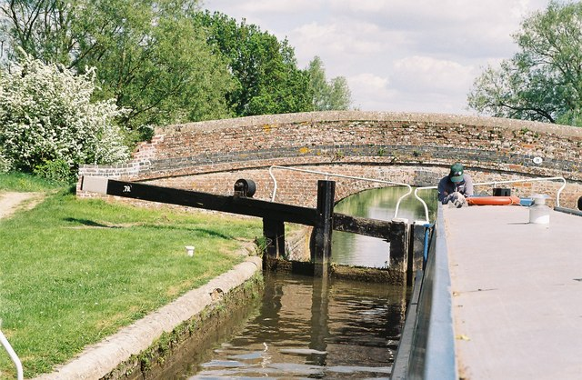 Dreweat's Lock and bridge. The Kennet & Avon Canal between Marsh Benham and Kintbury